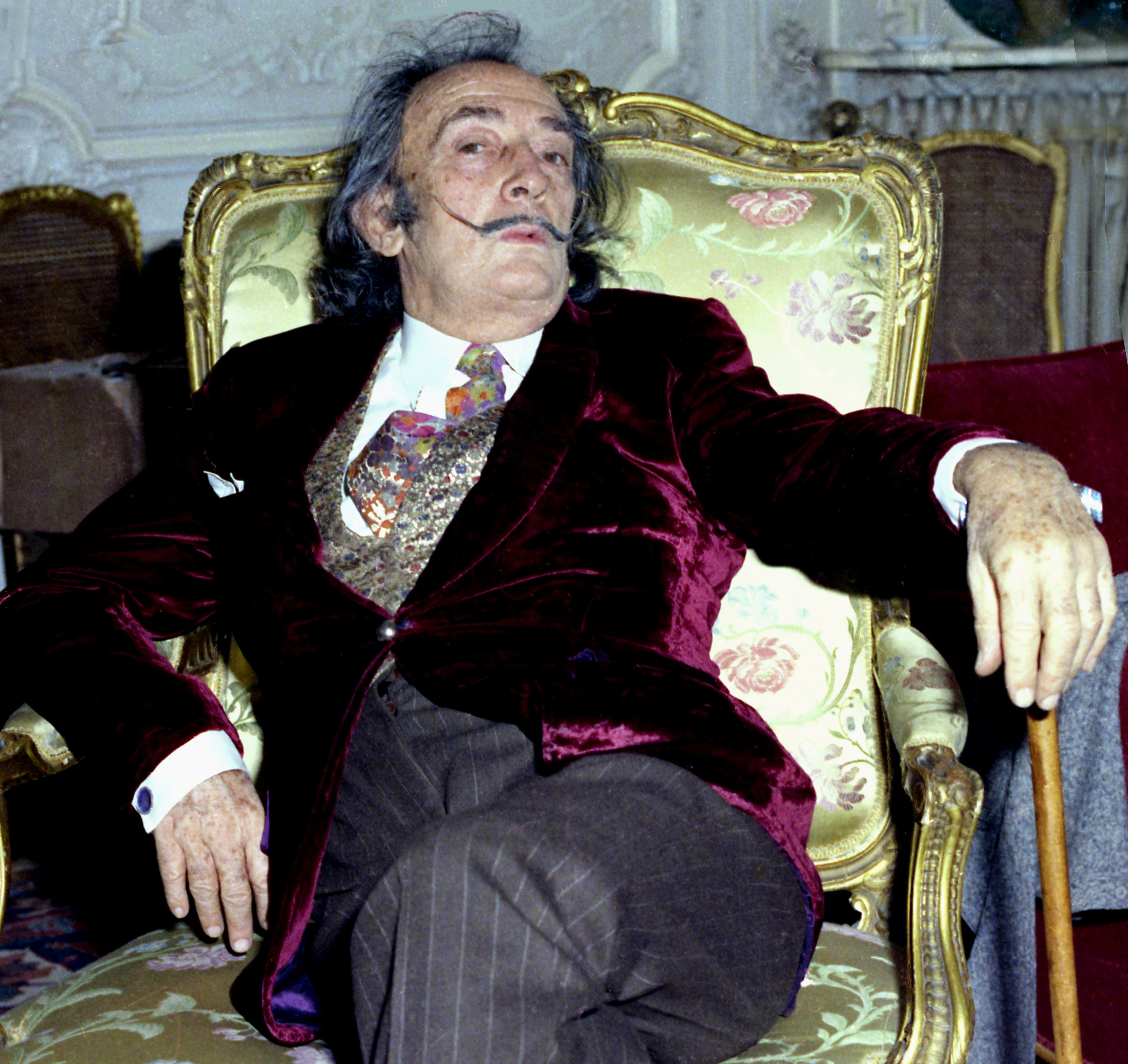 Salvador Dalí